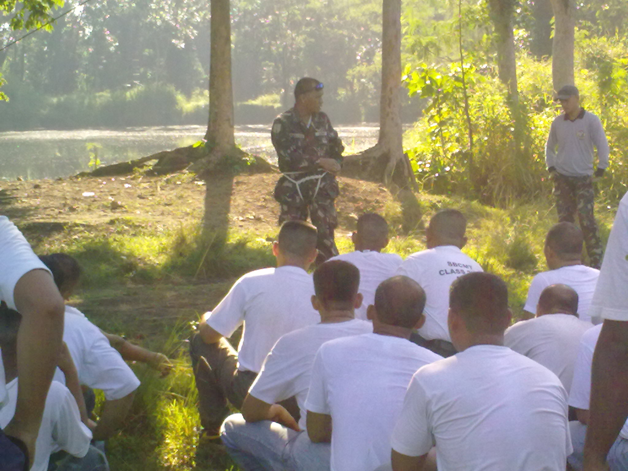 A Sergeant from the Scout Ranger Regiment gives instructions on military rappelling to SBCMT CL45-11 of the 1302nd Community Defense Center. Field Training Exercise SBCMT CL45-11, HFSRR, Camp Tecson, San Miguel Bulacan.